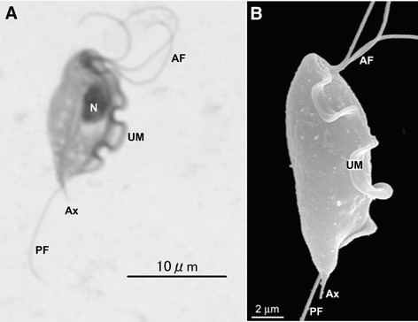 Tritrichomonas foetus trophozoites. A: Giemsa-stain. B: scanning electron microscopy. AF: anterior flagella; Ax: axostyle; N: nucleus; PF: posterior flagellum; UM: undulating membrane.